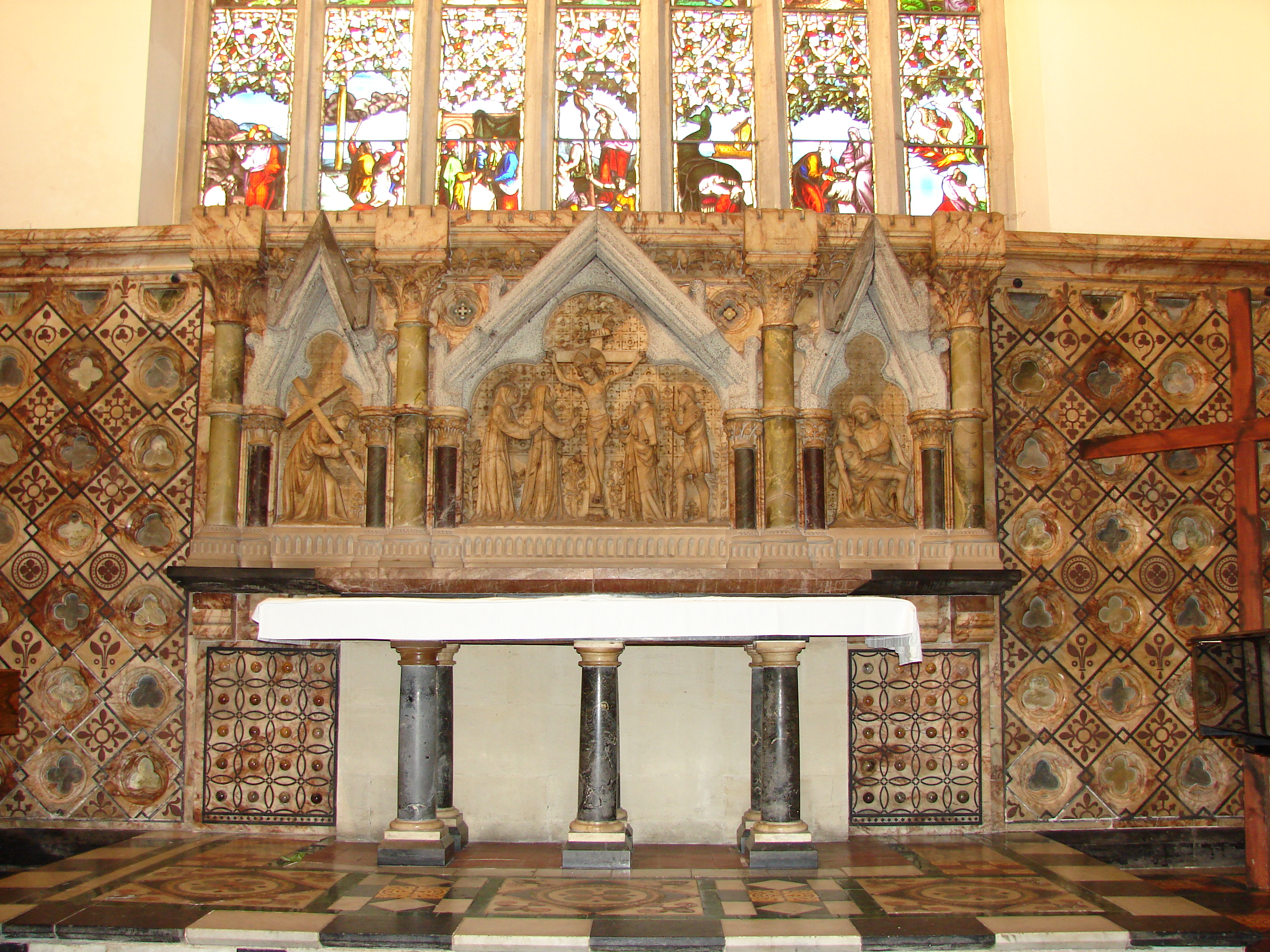 Altar and reredos in chapel of Jesus College Oxford